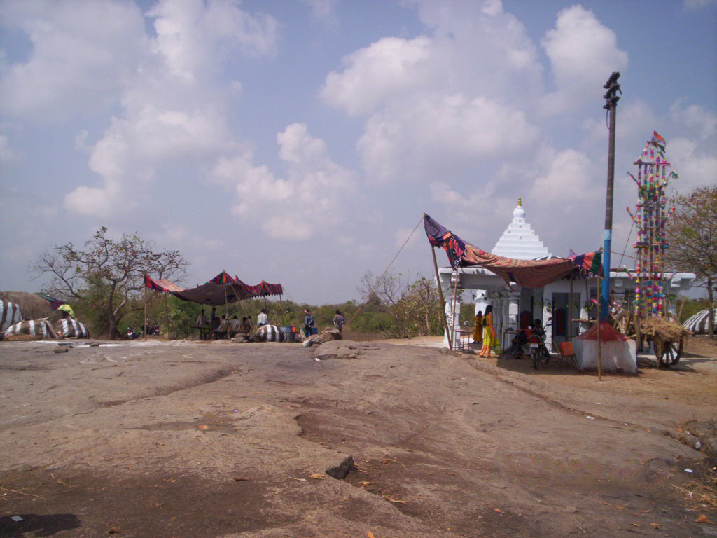 Temple of Mallanna Swamy, Temporary Police out post, Water supply and prabhas.